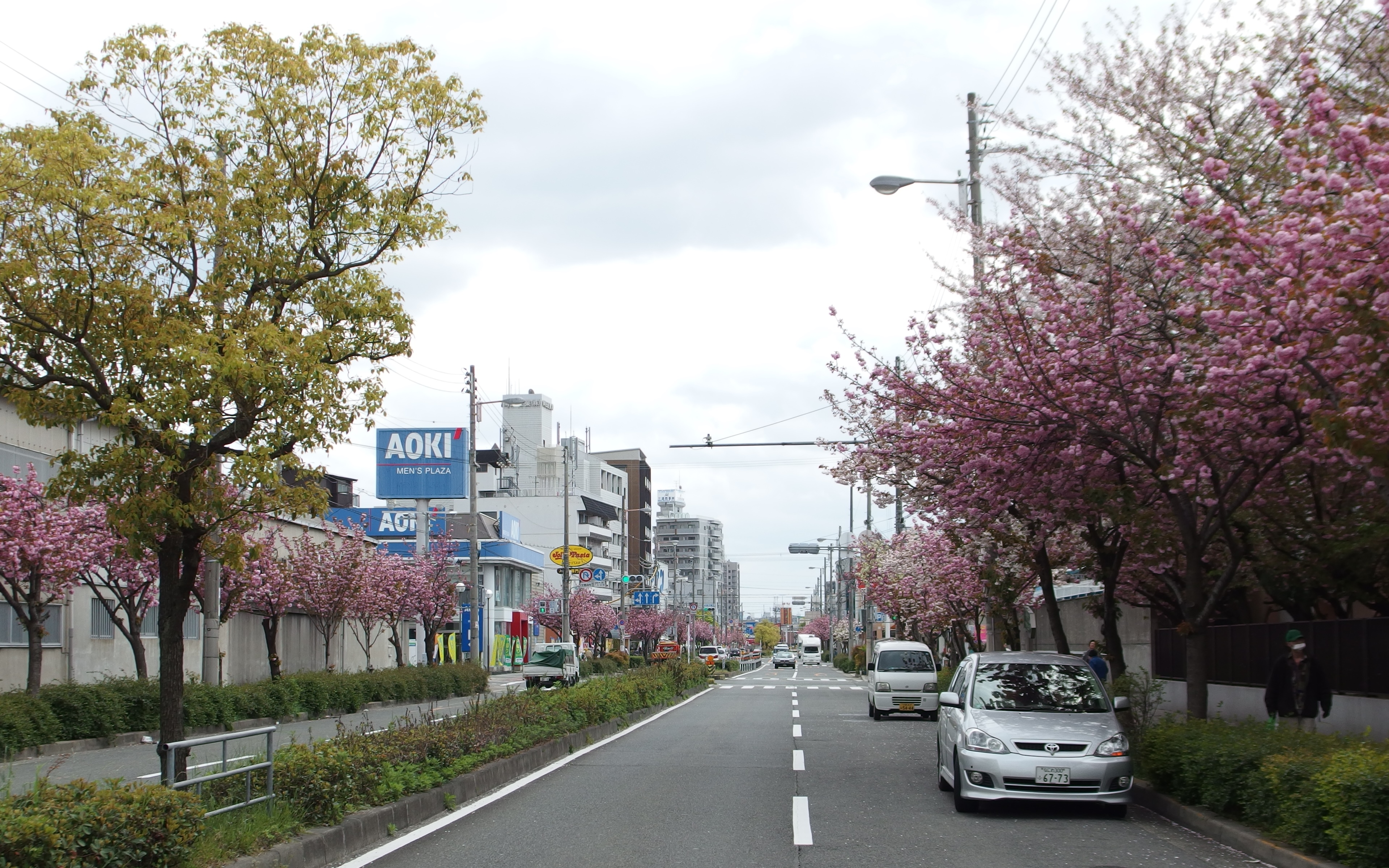 Shirokita-suji street in Osaka, Osaka Prefecture, Japan